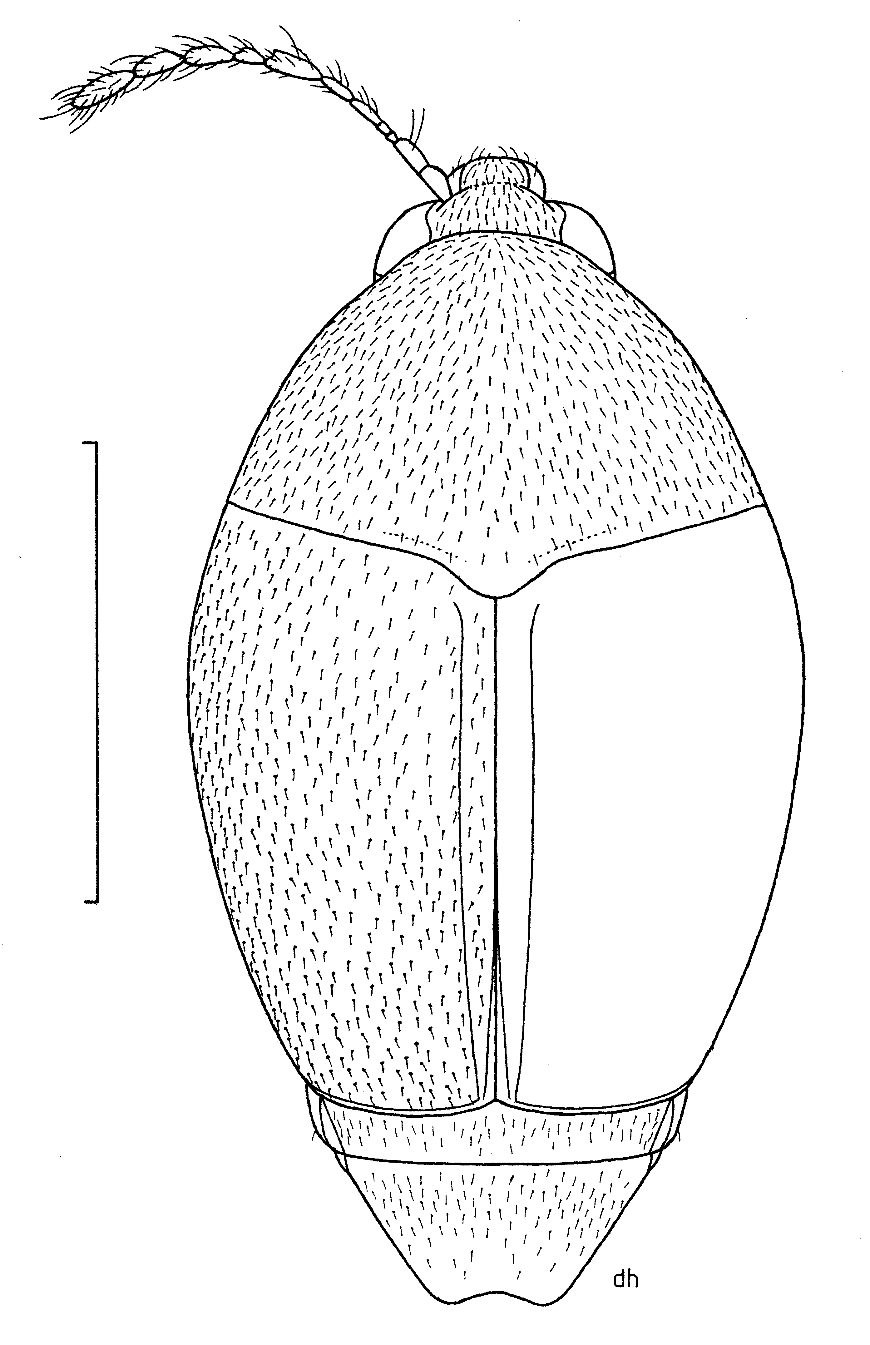 (Coleoptera: Staphylinidae) Scaphisoma corcyricum illustrated by Des Helmore.